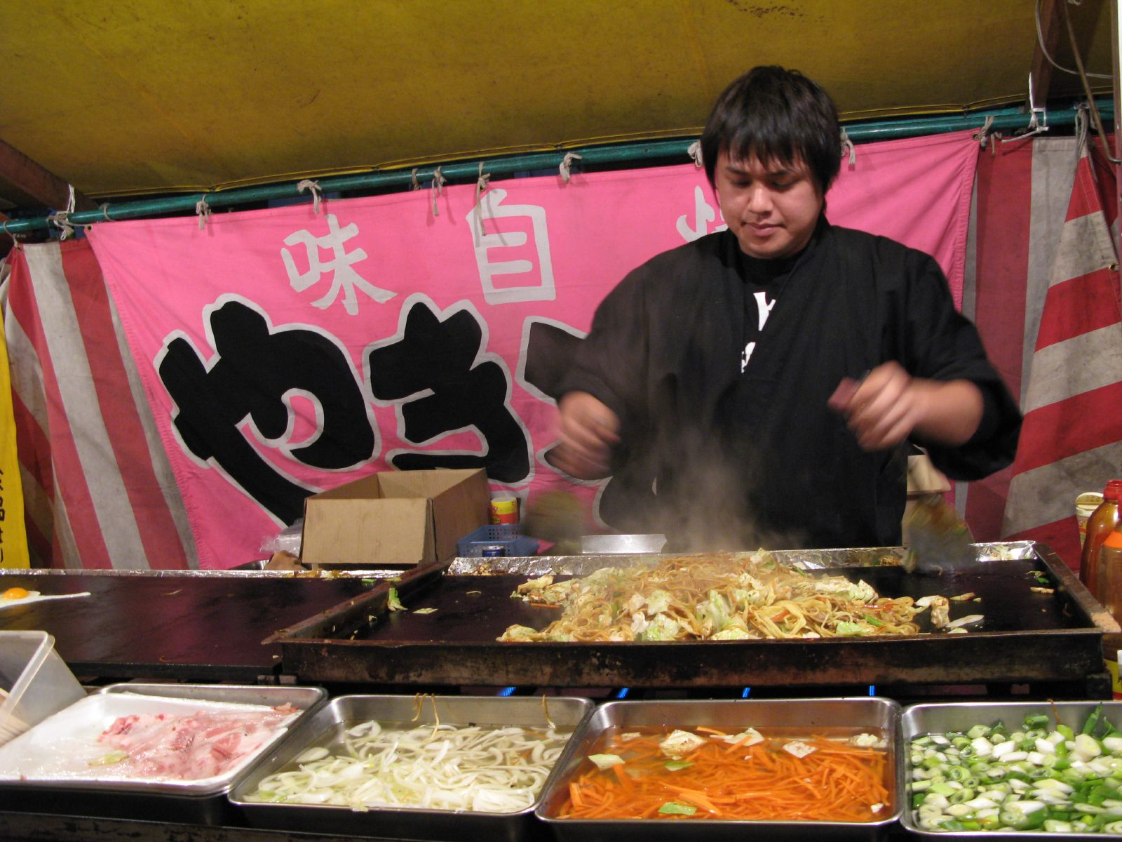 A vendor making yakisoba, one of my favorite festival foods, at the Sagicho Fire Festival in Katsuyama, Japan.